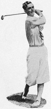 Johnny Farrell